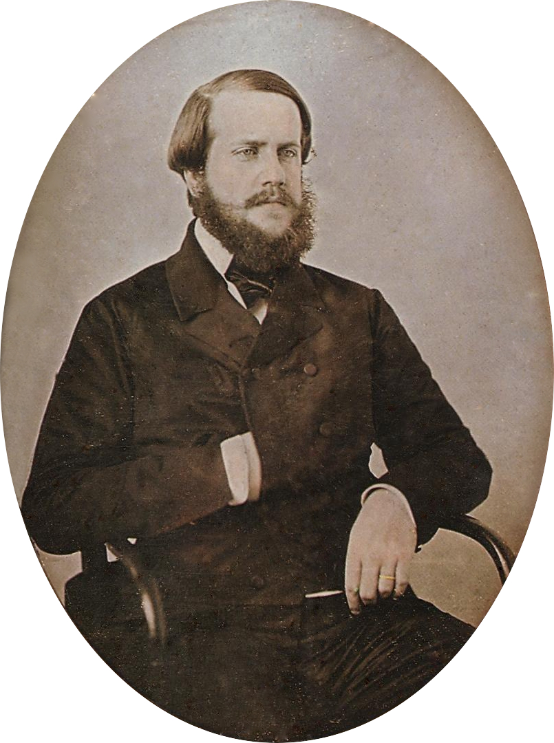 Emperor Dom Pedro II of Brazil around age 25, c.1851.